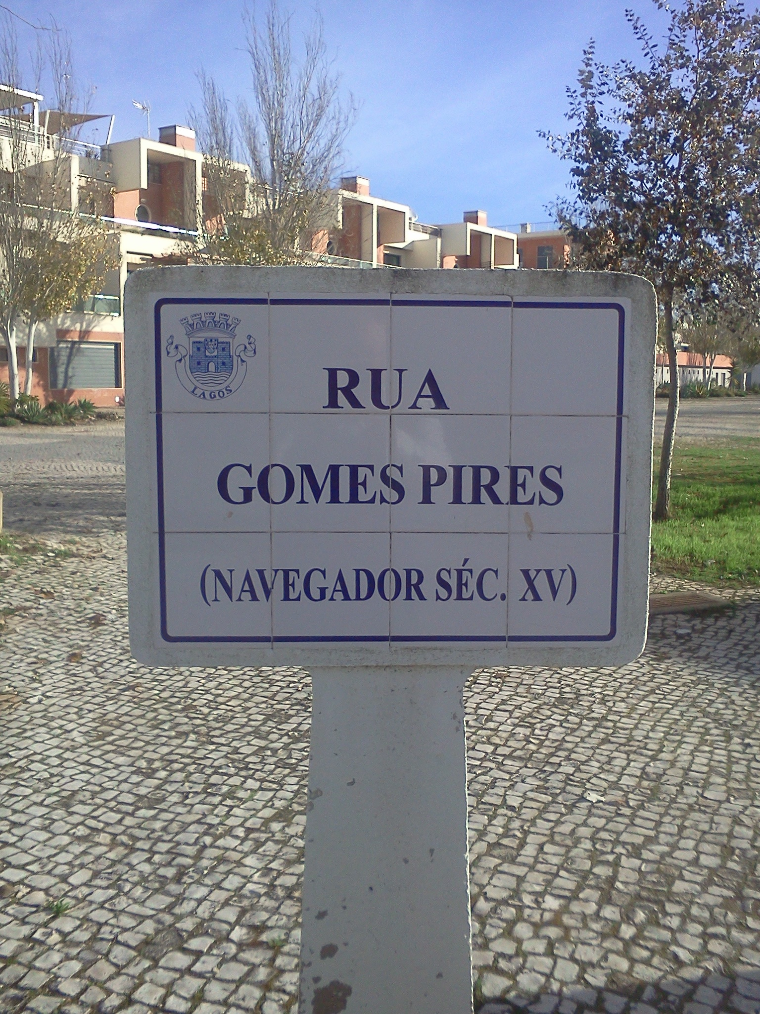 Street sign of Rua Gomes Pires, in the city of Lagos, in southern Portugal.